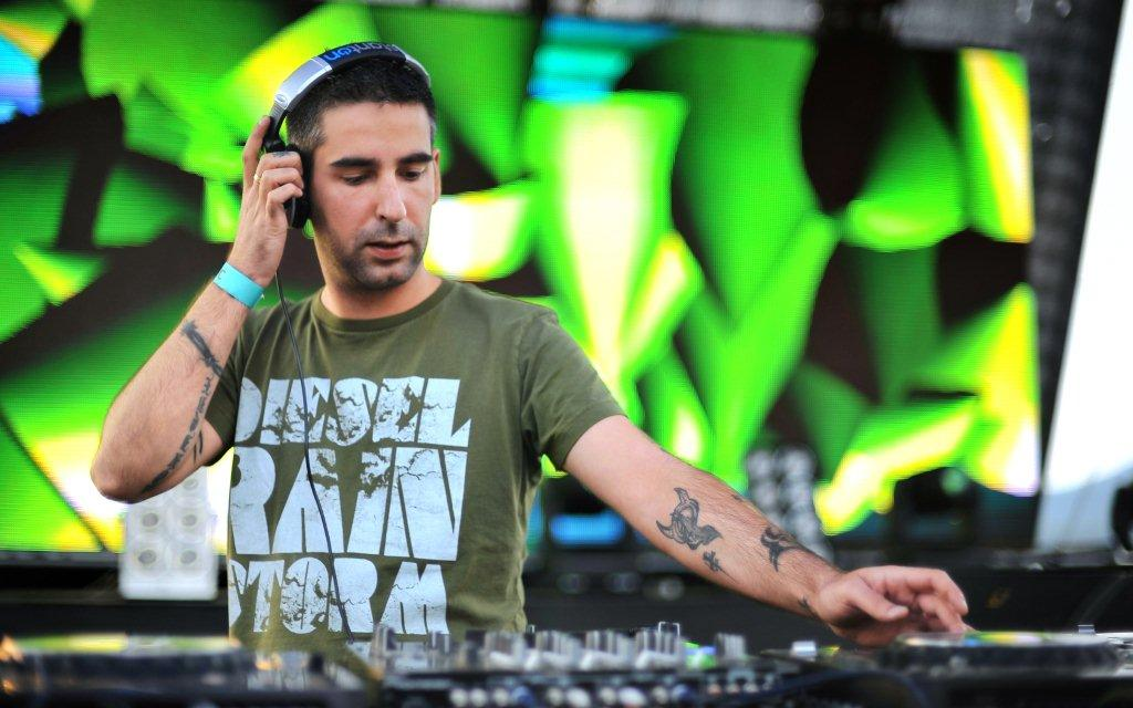 Sied van Riel djing at Machac Festival 2009, Czech Republic